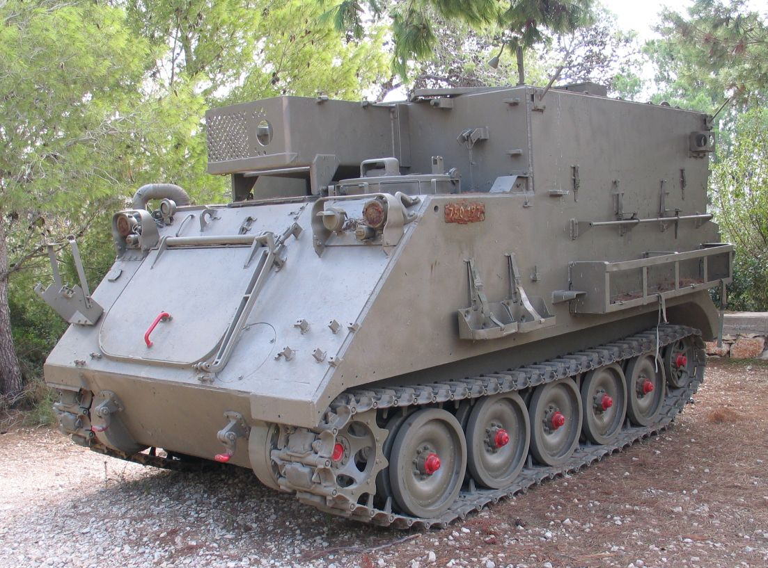 Description: M113-based M577 Armored Command Post Carrier (IDF designation Mugaf) in Beyt ha-Totchan, Zichron Yaakov, Israel. Source: Photo by me, User:Bukvoed.